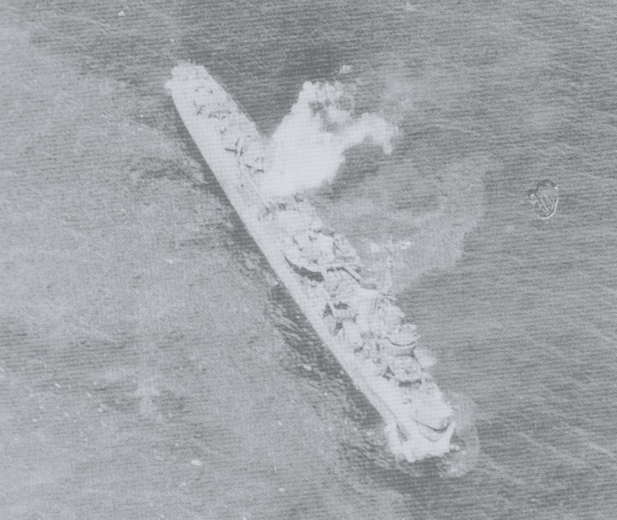 The Japanese destroyer Naganami heavily damaged and immobilized in Ormoc Bay's waters on November 11th, 1944: the ship is losing a vast amount of oil and the bow is missing. The photograph was taken by one of the attacking planes and the destroyer sank later the same day.